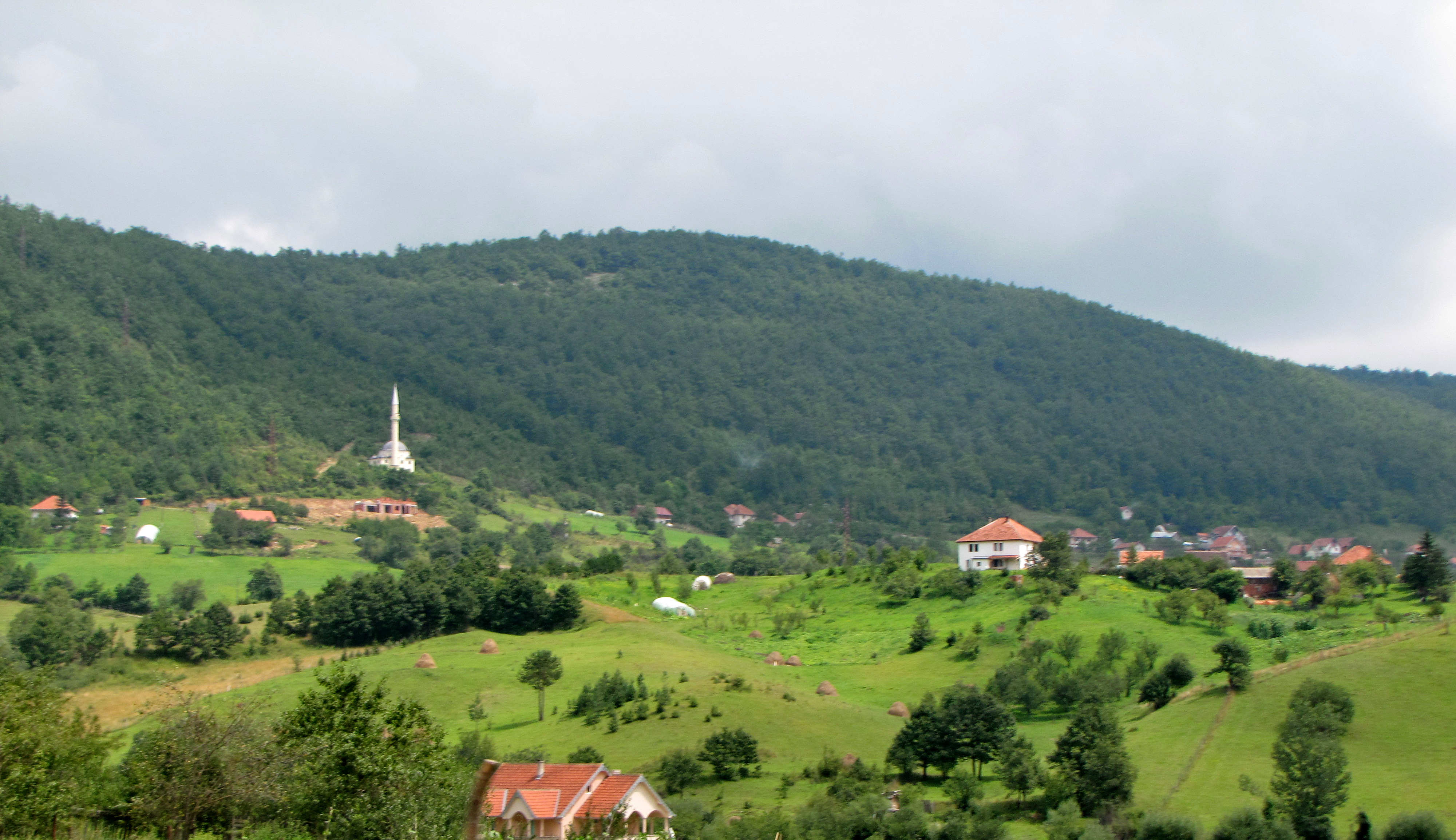 View on Mitrova.